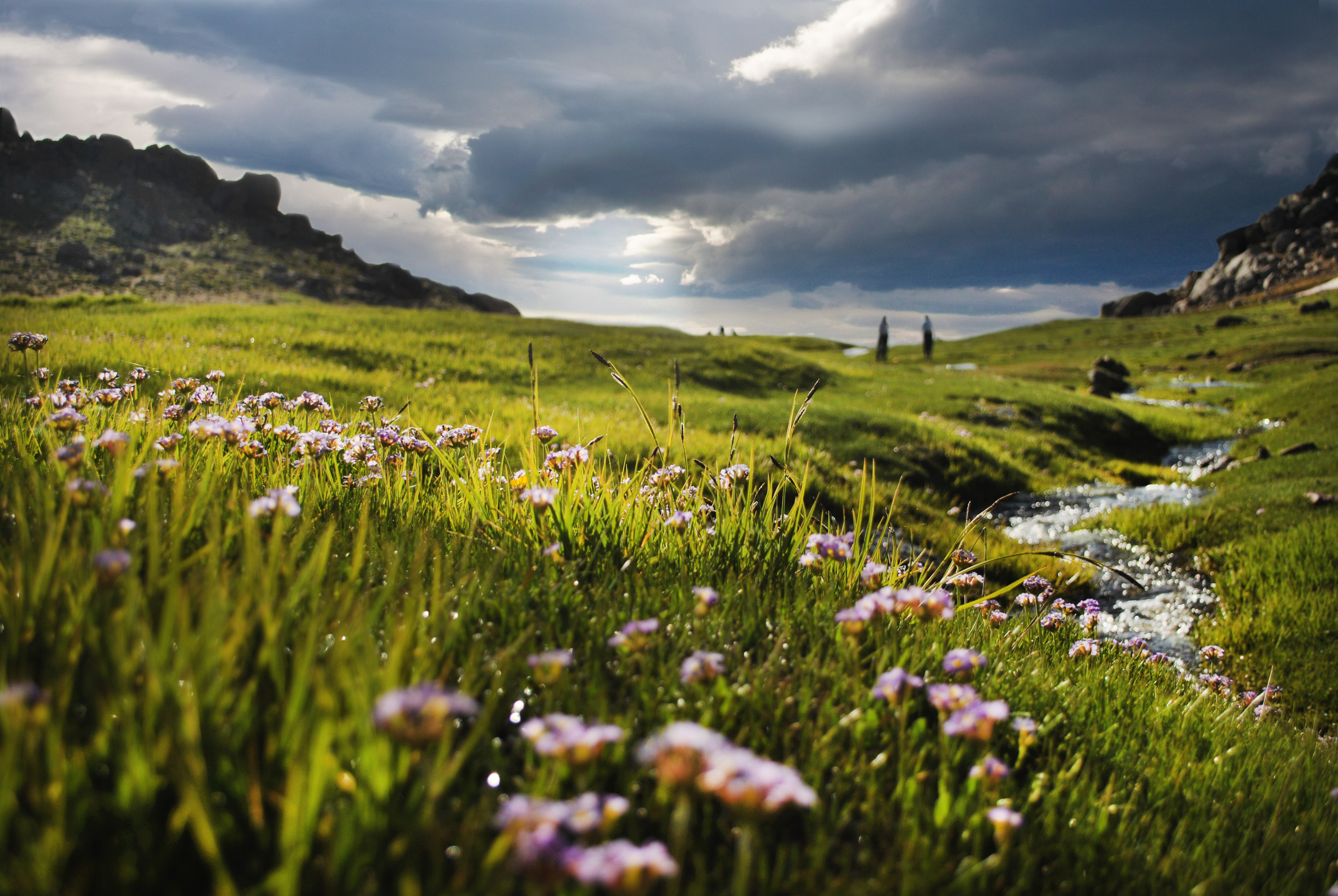 Hamadan